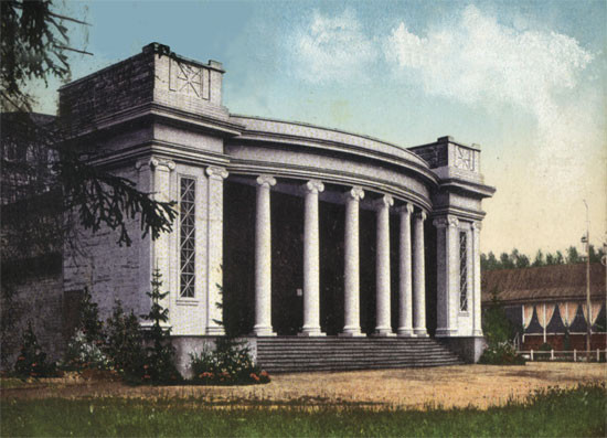 Renowned Summer Theater in Malakhovka (built in 1911, destroyed by arson in 1999)